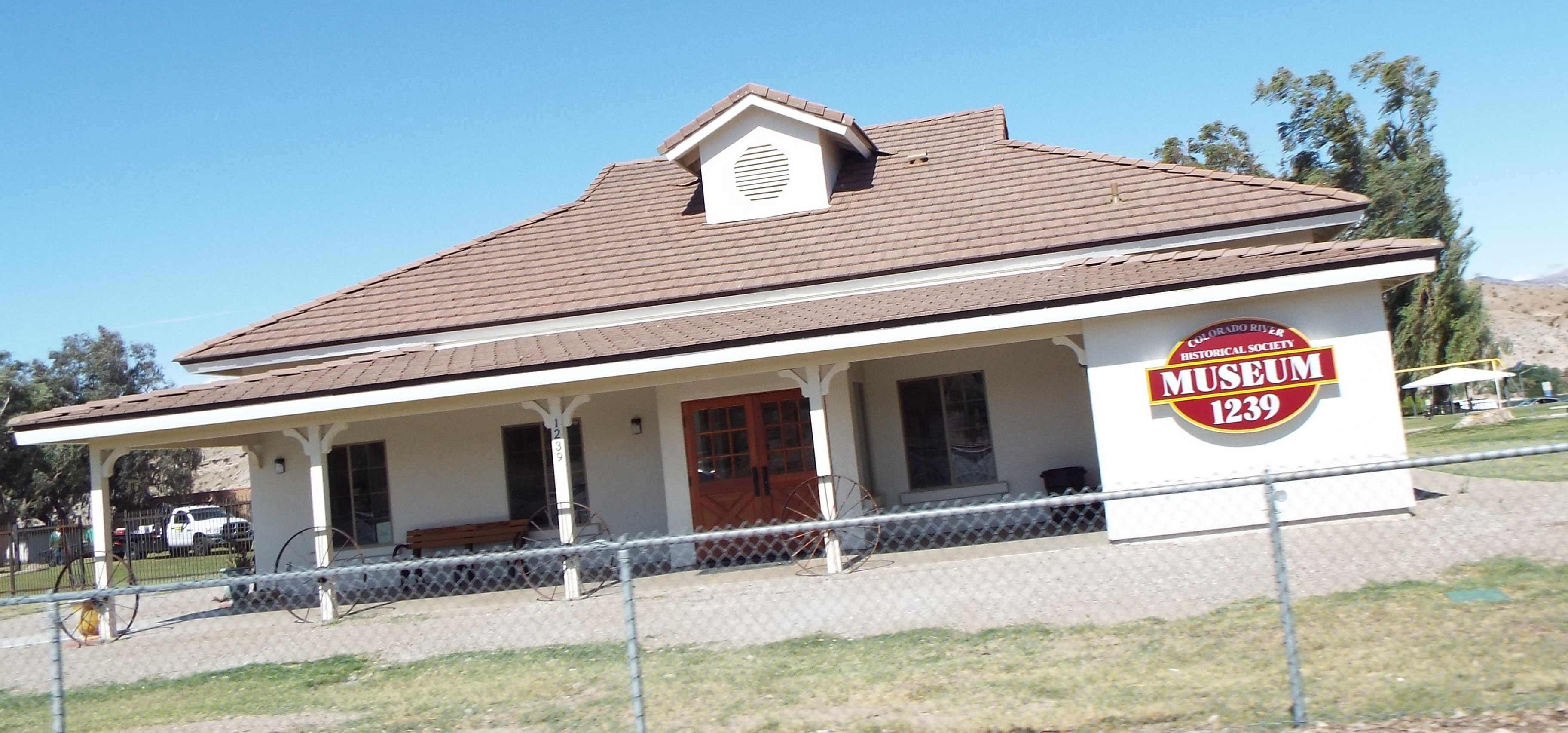 1947 Colorado River Historical Society & Museum in Bullhead City, Az